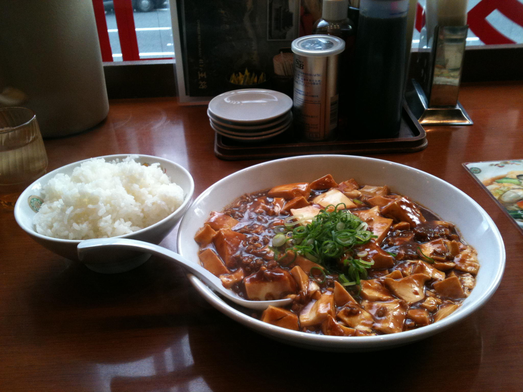 Mabodoufu (マーボー豆腐) as served at 餃子の王将 in Kobe, Japan